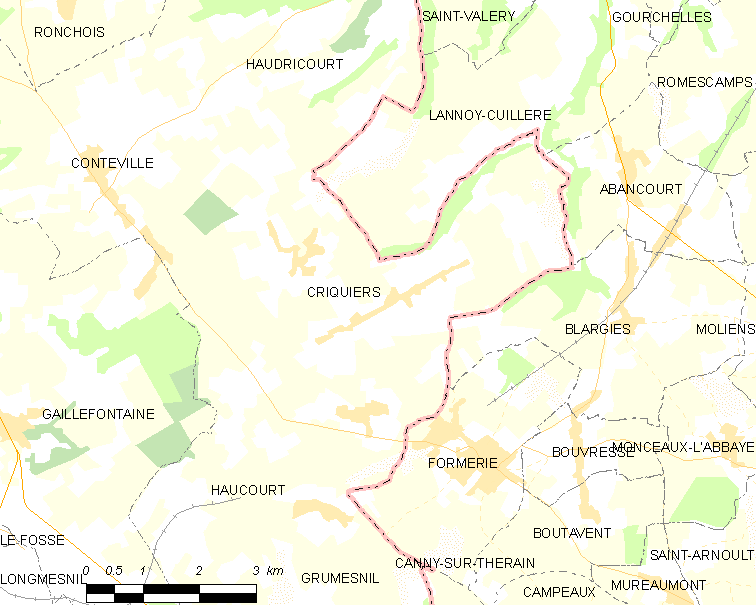 Map of French municipality Criquiers